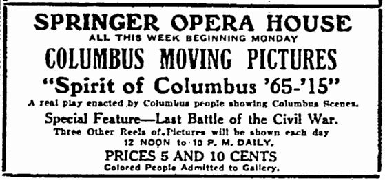 Advertisement for "The Spirit of Columbus 1865 - 1915"